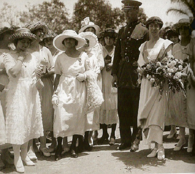 Young Brazilian women greet the Belgian monarchs when they arrive in Belo Horizonte, Minas Gerais.